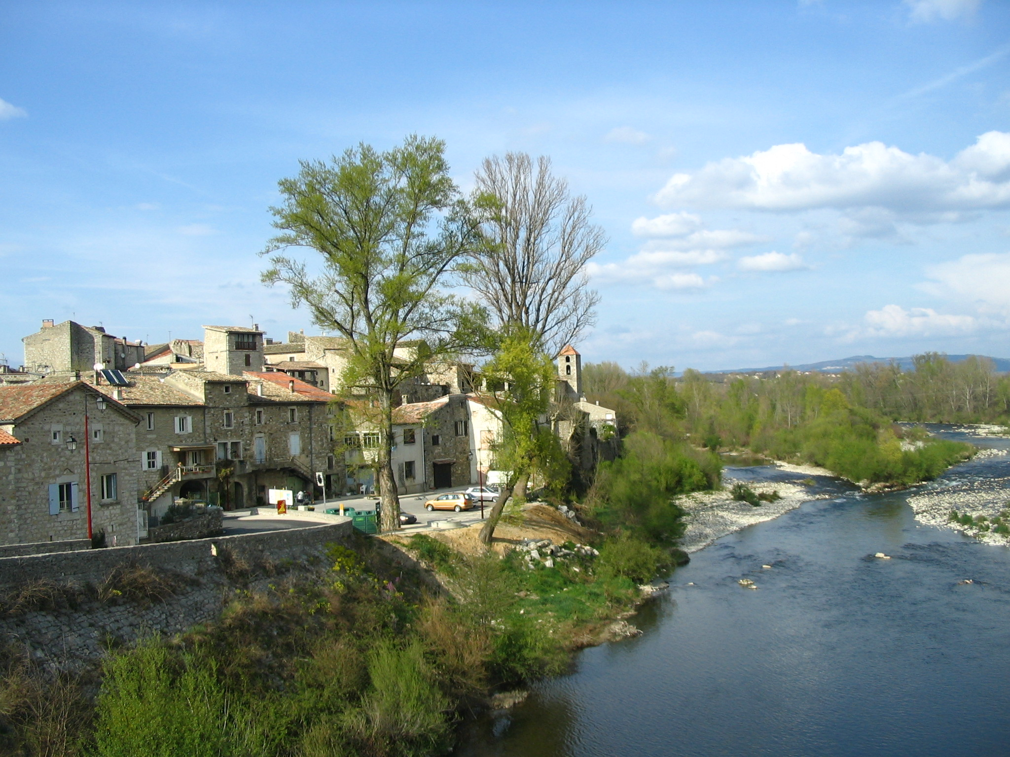 Village Lanas in the Ardèche valley, France